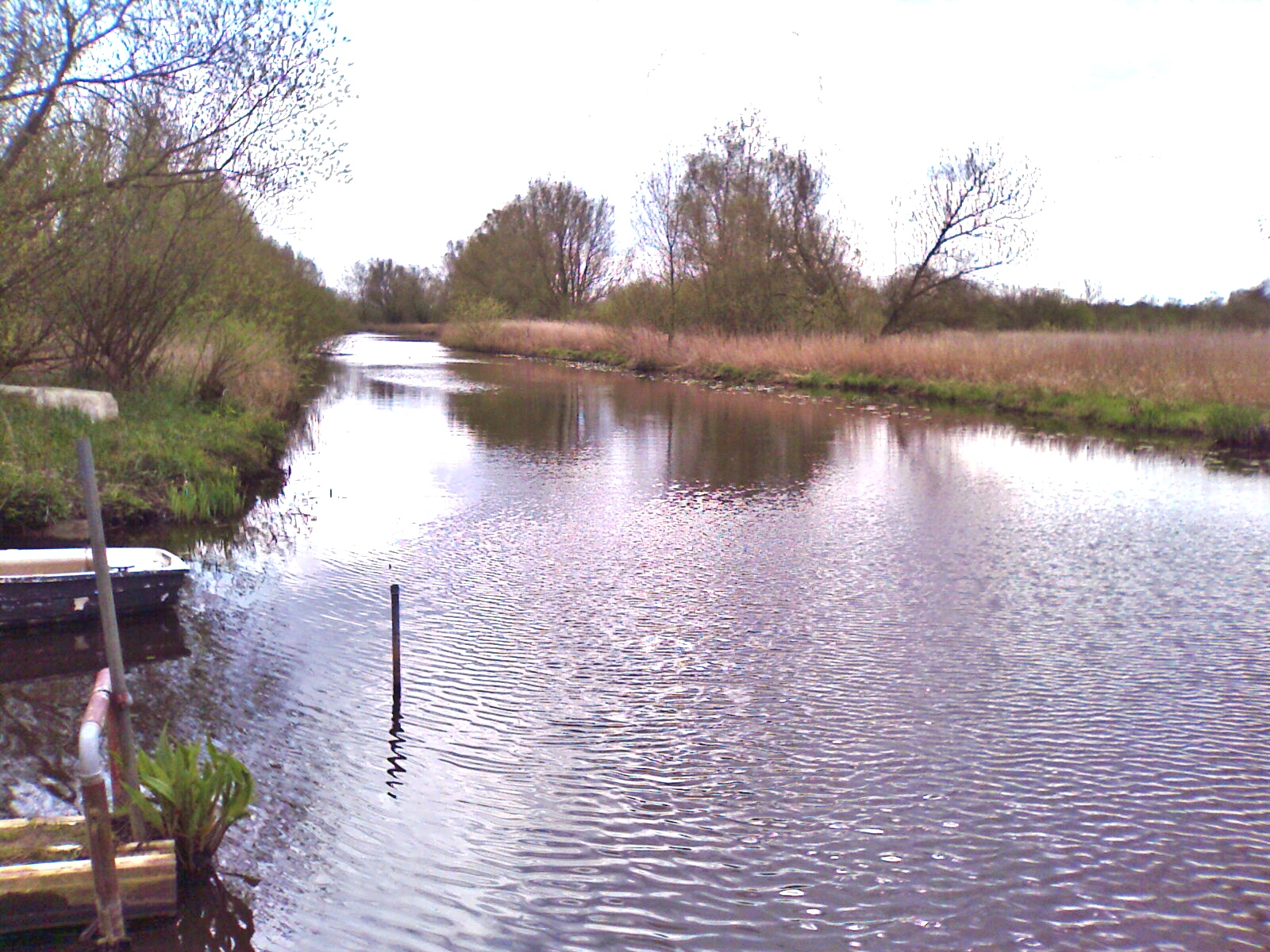 Haaler Au close to Haale